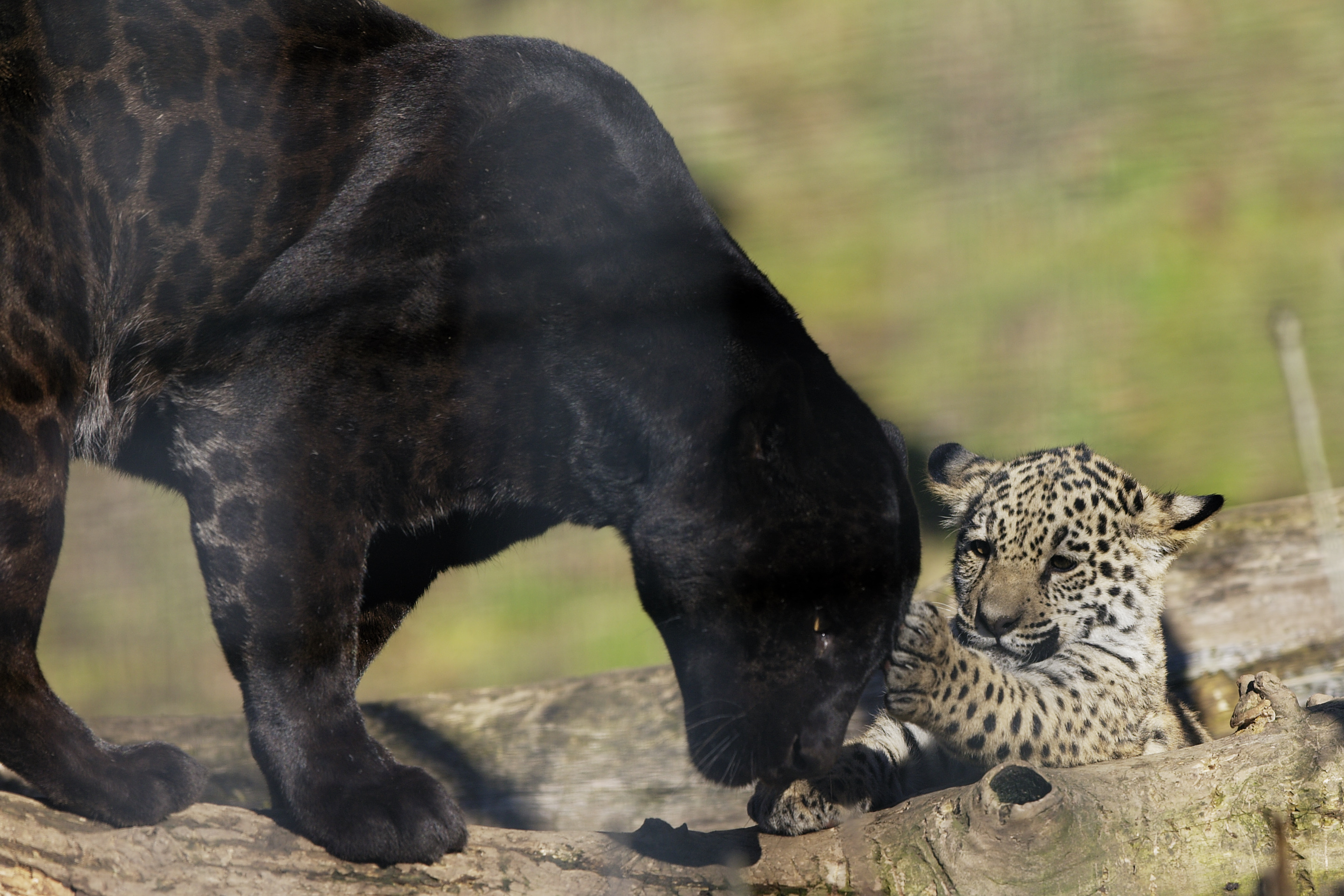 Young (4 months) jaguars at zoo Salzburg. Born at 2009-08-31 photographed at 2009-12-26